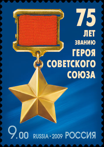 Stamp of the Russia, Hero of the Soviet Union, 2009